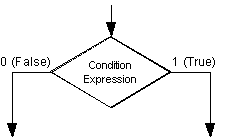 A decision box used in ASM charts.